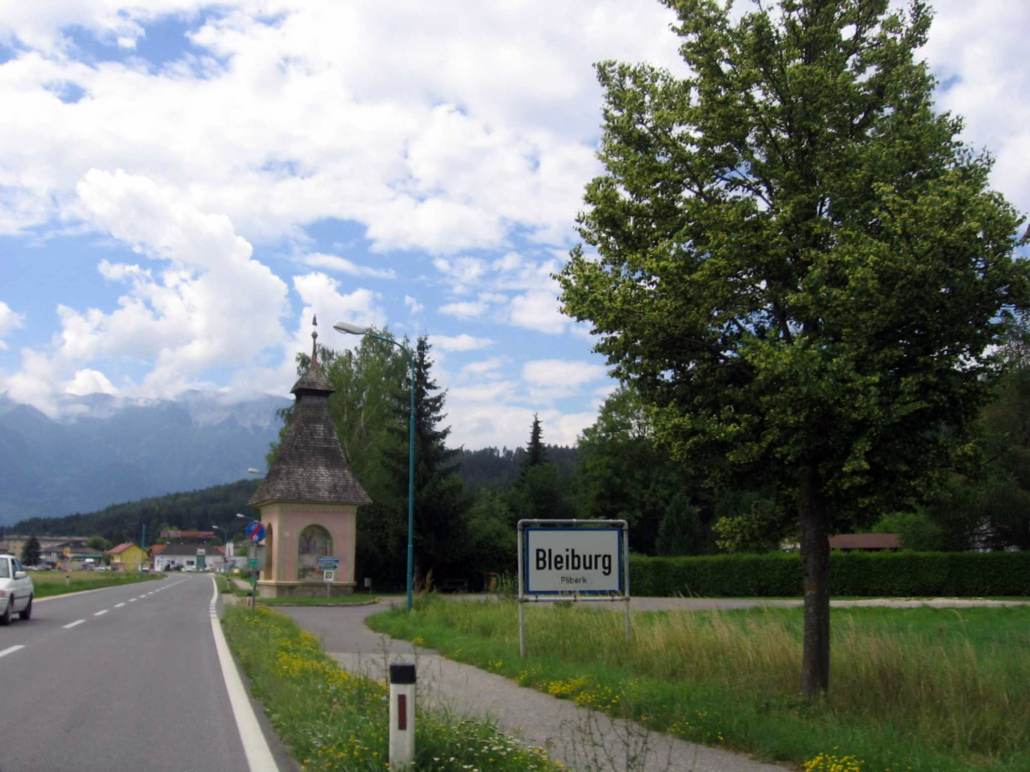 Pliberk-Bleiburg, beginning with disproportioned inscription of Haider's regime in 2007 in German and Slovene language.